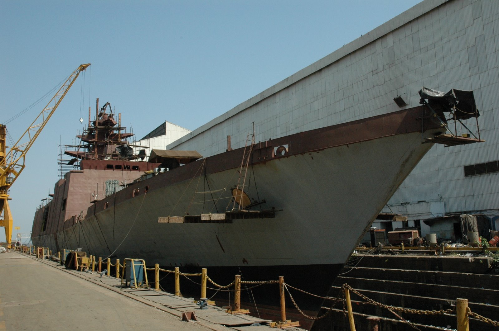 INS Sahyadri, the third Project 17 stealth frigate of the Indian Navy, being fitted out at Mazagon Docks Ltd, Mumbai.